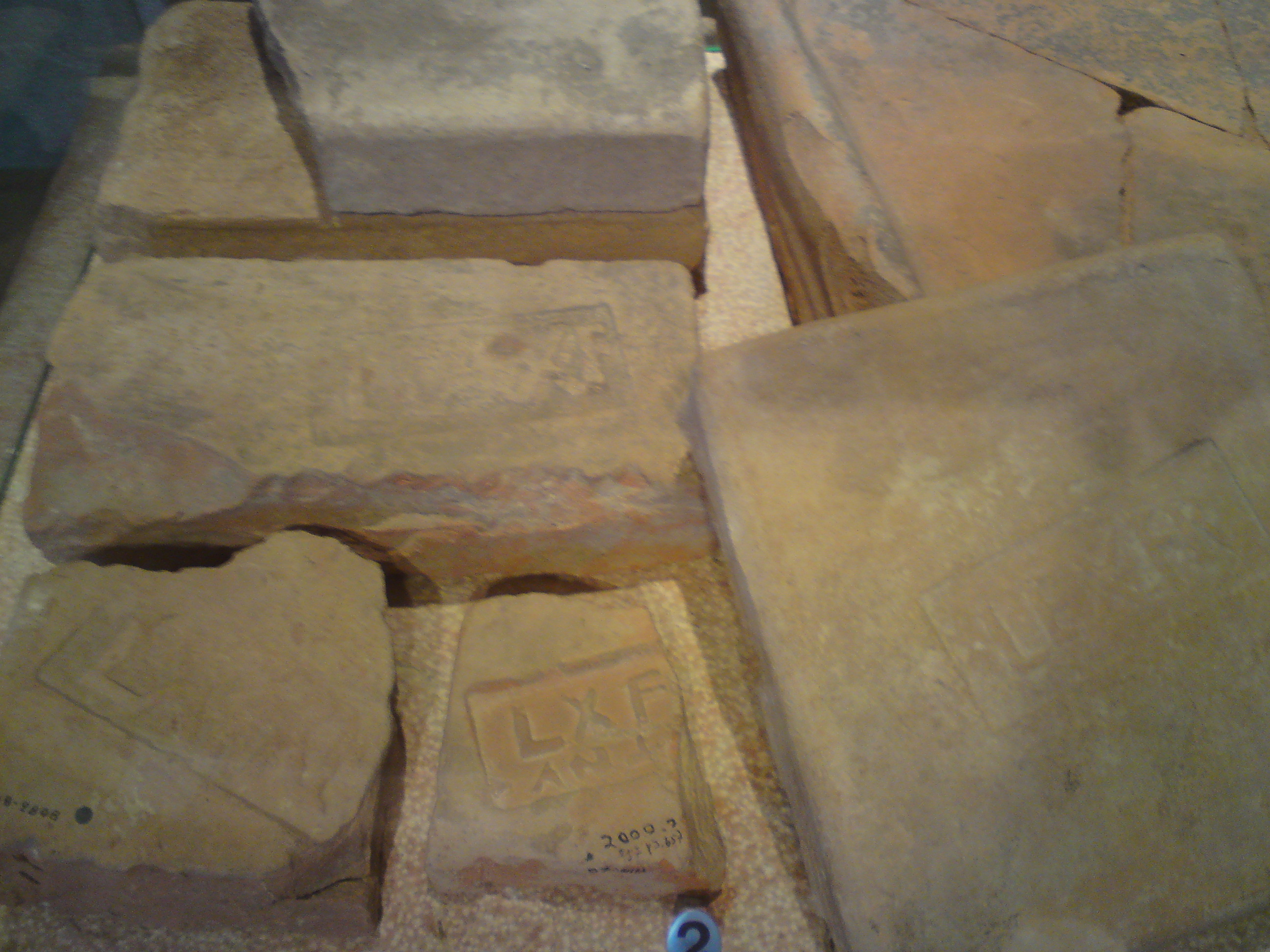 Brick Stamp Impressions of the Legio X Fretensis from Hecht Museum in Haifa, israel